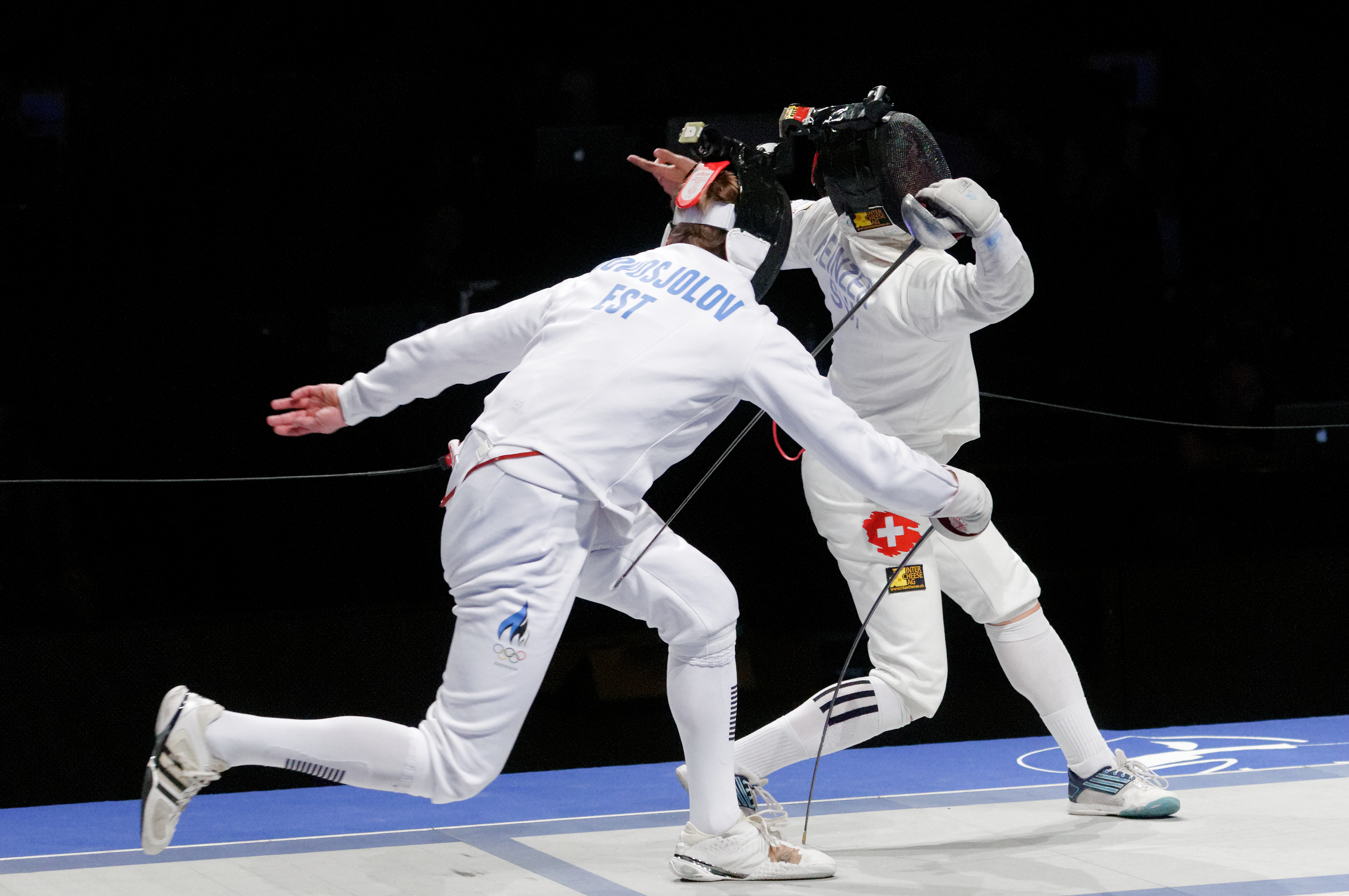 Semi-final of the Masters à l'épée 2012: Nikolai Novosjolov (left) against Max Heinzer (right).